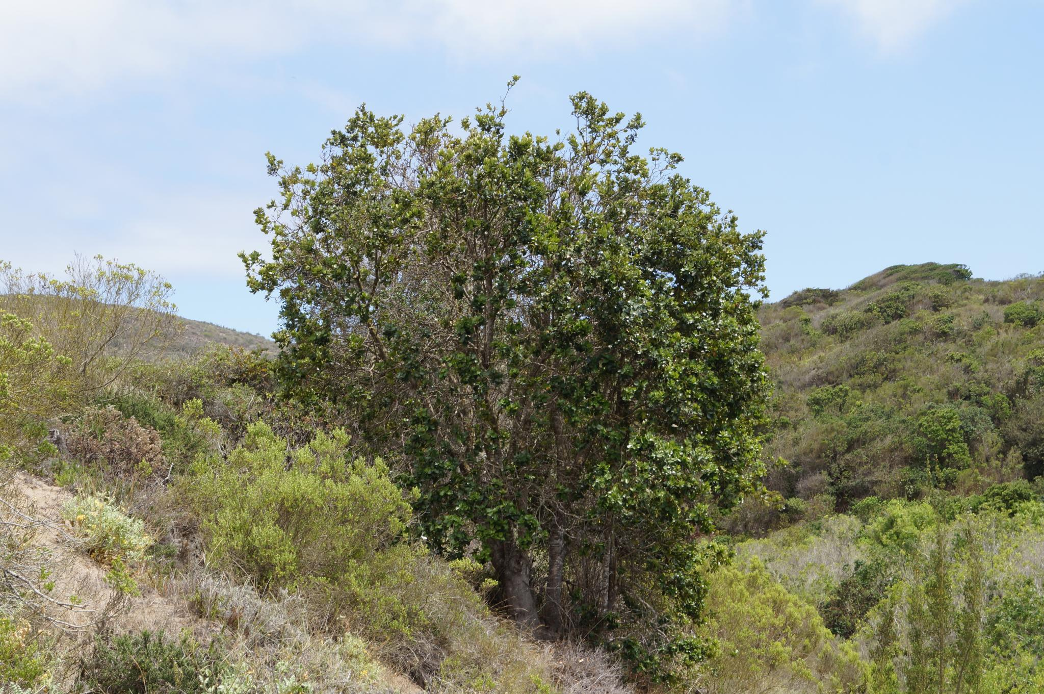 Citronella mucronata, Los Vilos, Chile